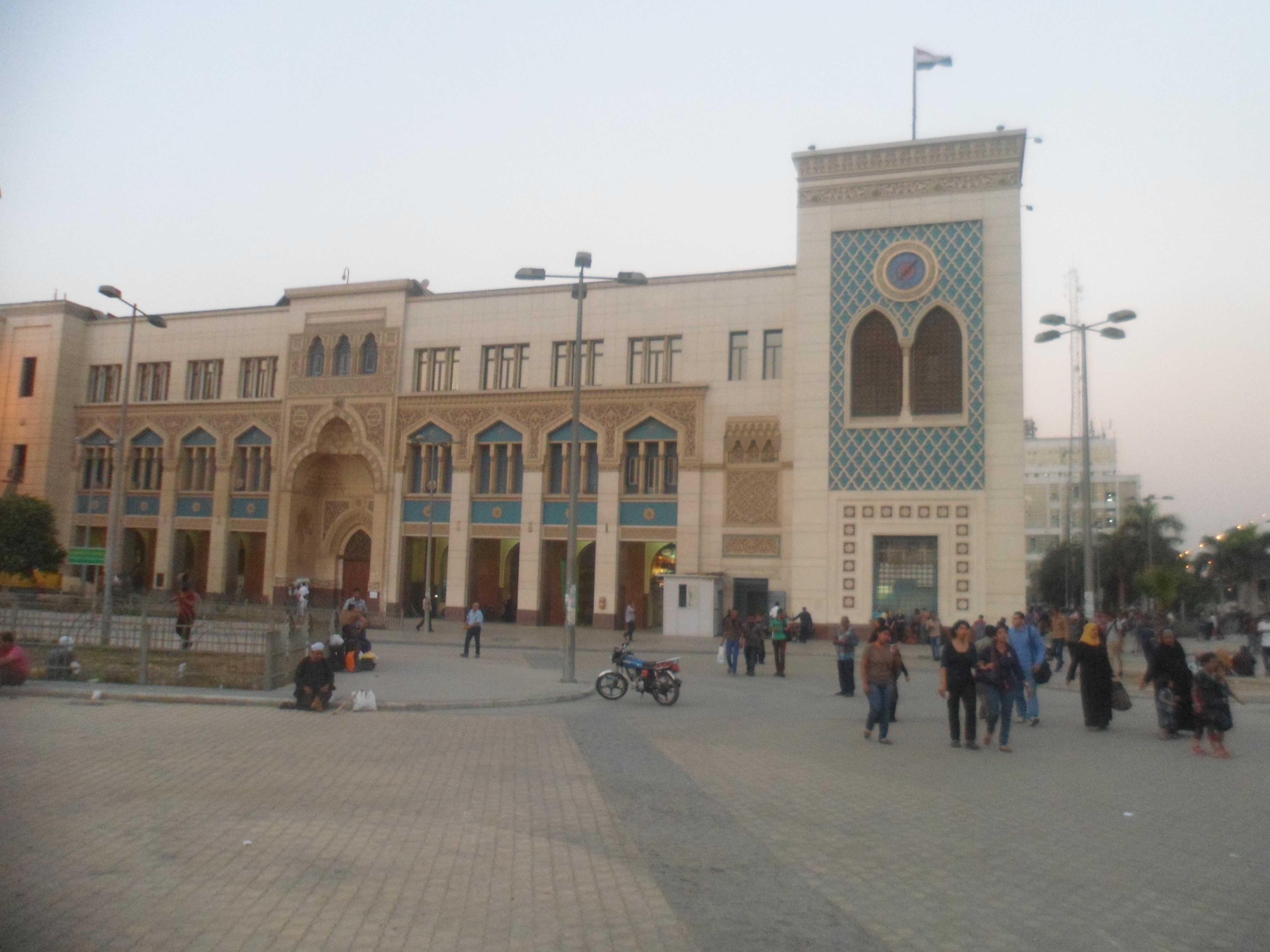 Cairo Rail station outside view , you can go by trains to many cities of Egypt